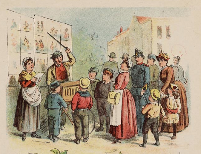 Children's book with rhymes and illustrations: "De kijkkast en andere vermaken" (12 rhymes with pictures). Printed: Alkmaar, 1892. Page 5-6: the street singer with illustration cloth. Online source: Het Geheugen van Nederland. Source: KB Den Haag.